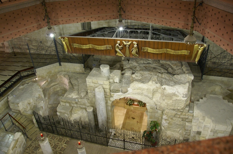 Basilica of the Annunciation, Nazareth, Israel - Grotto (lower church)